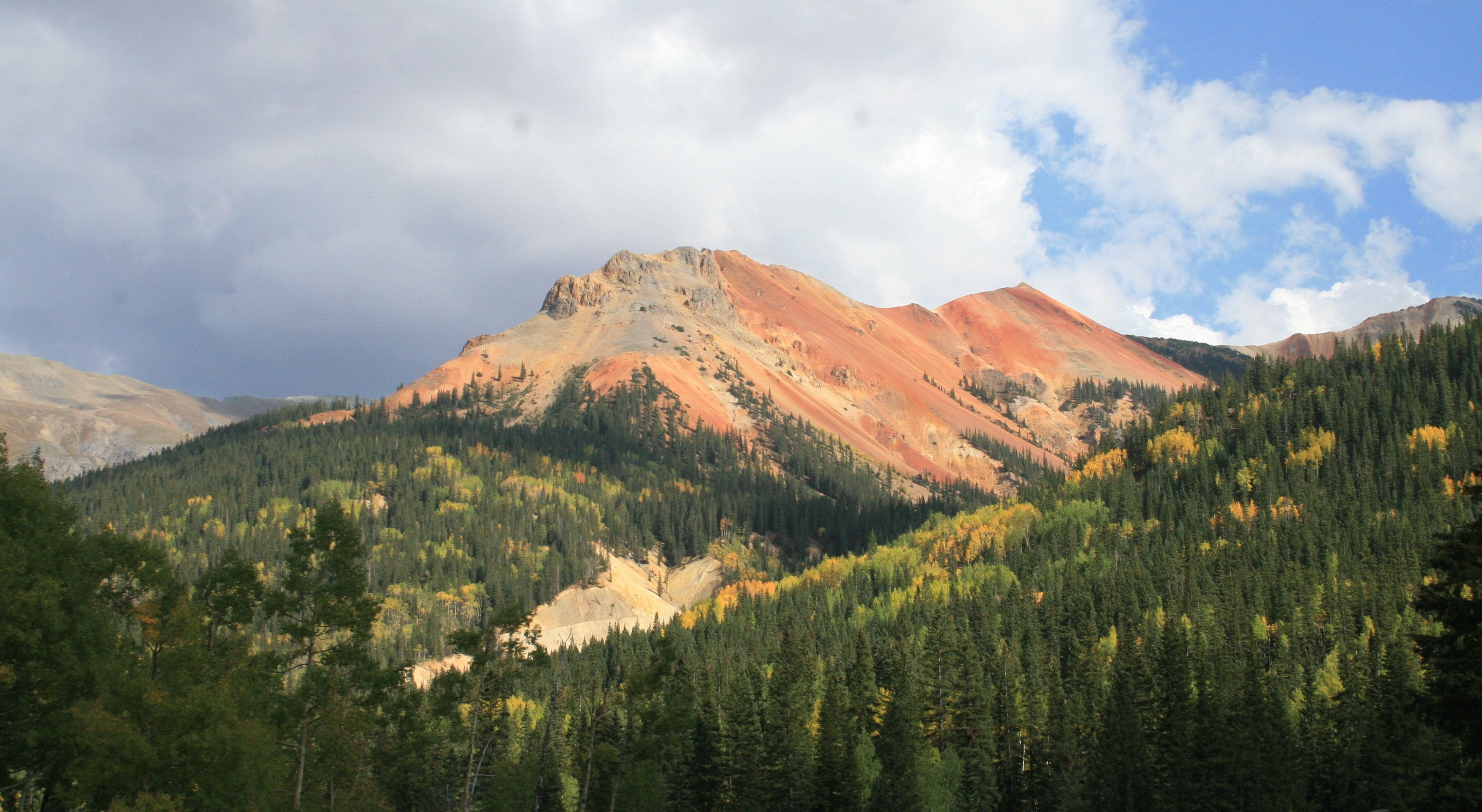 Red Mountain Pass, CO, USA View of Red Mountain #1, 12,592 ft.